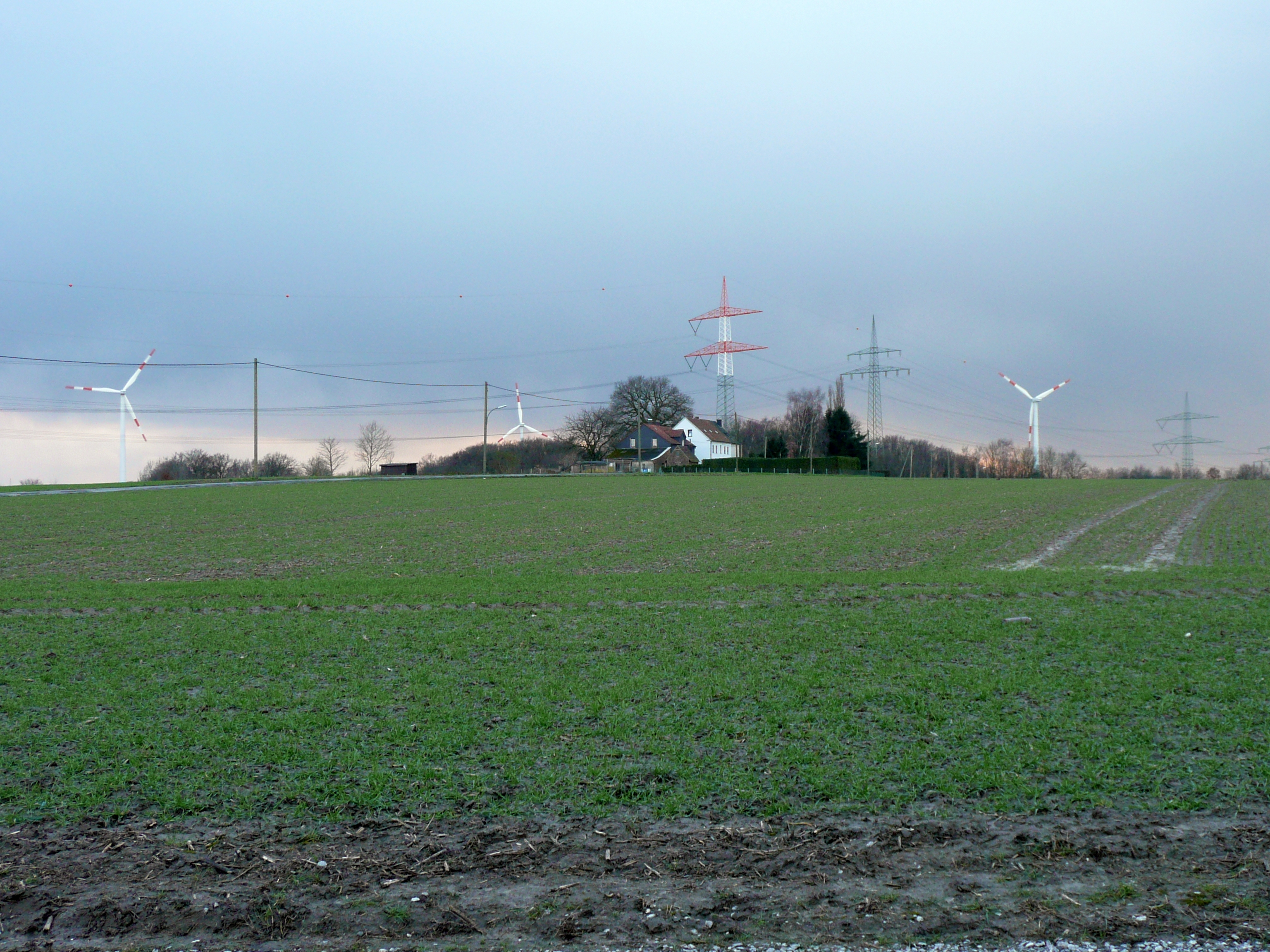 Landscape with powerlines and wind turbines in Dortmund-Hombruch